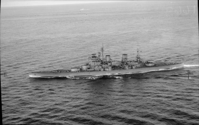 HMS Duke of York Underway.